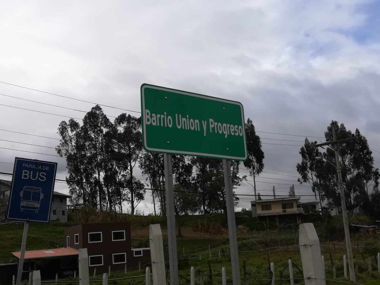 Paccha turismo parroquia Cuenca